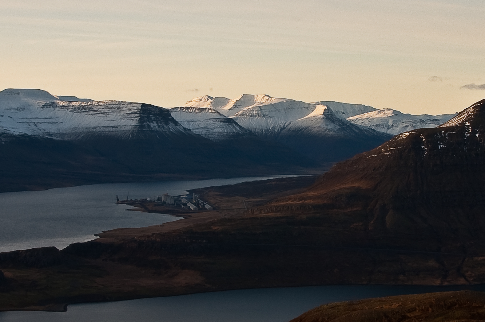 Alcoa aluminium factory in Reyðarfjörður, East-Iceland